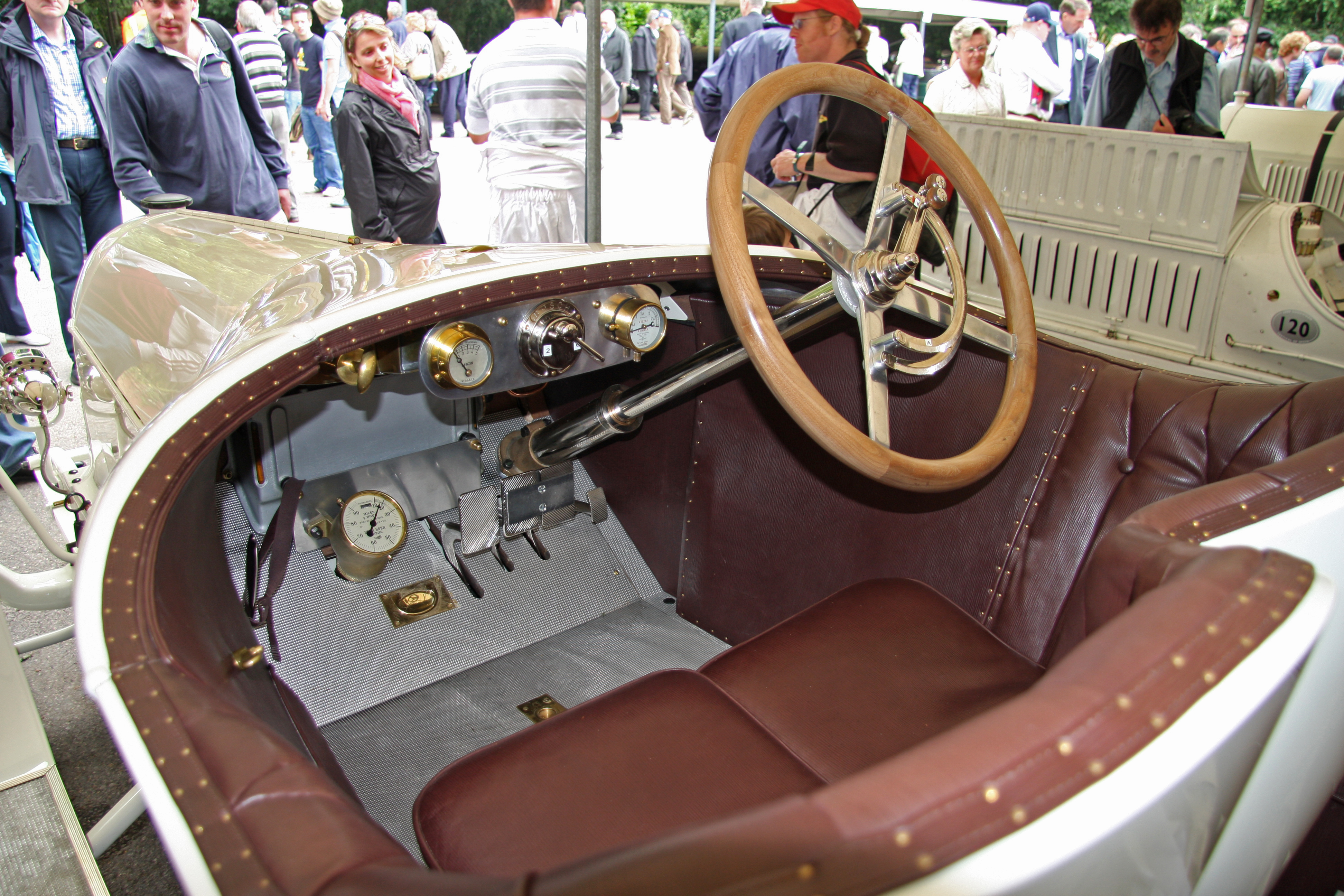 1910 Austro-Daimler Prince Henry